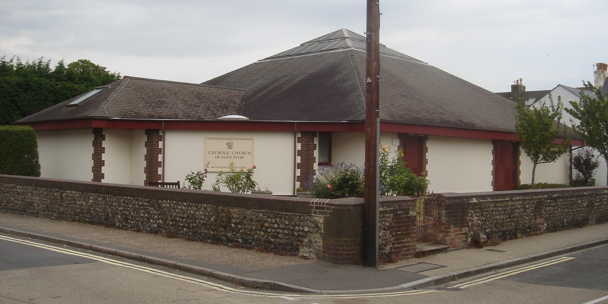 St Peter's Roman Catholic Church, North Street, Shoreham-by-Sea, Adur District, West Sussex, England. Built to replace the former church of the same name on Ship Street, which closed in 1982.